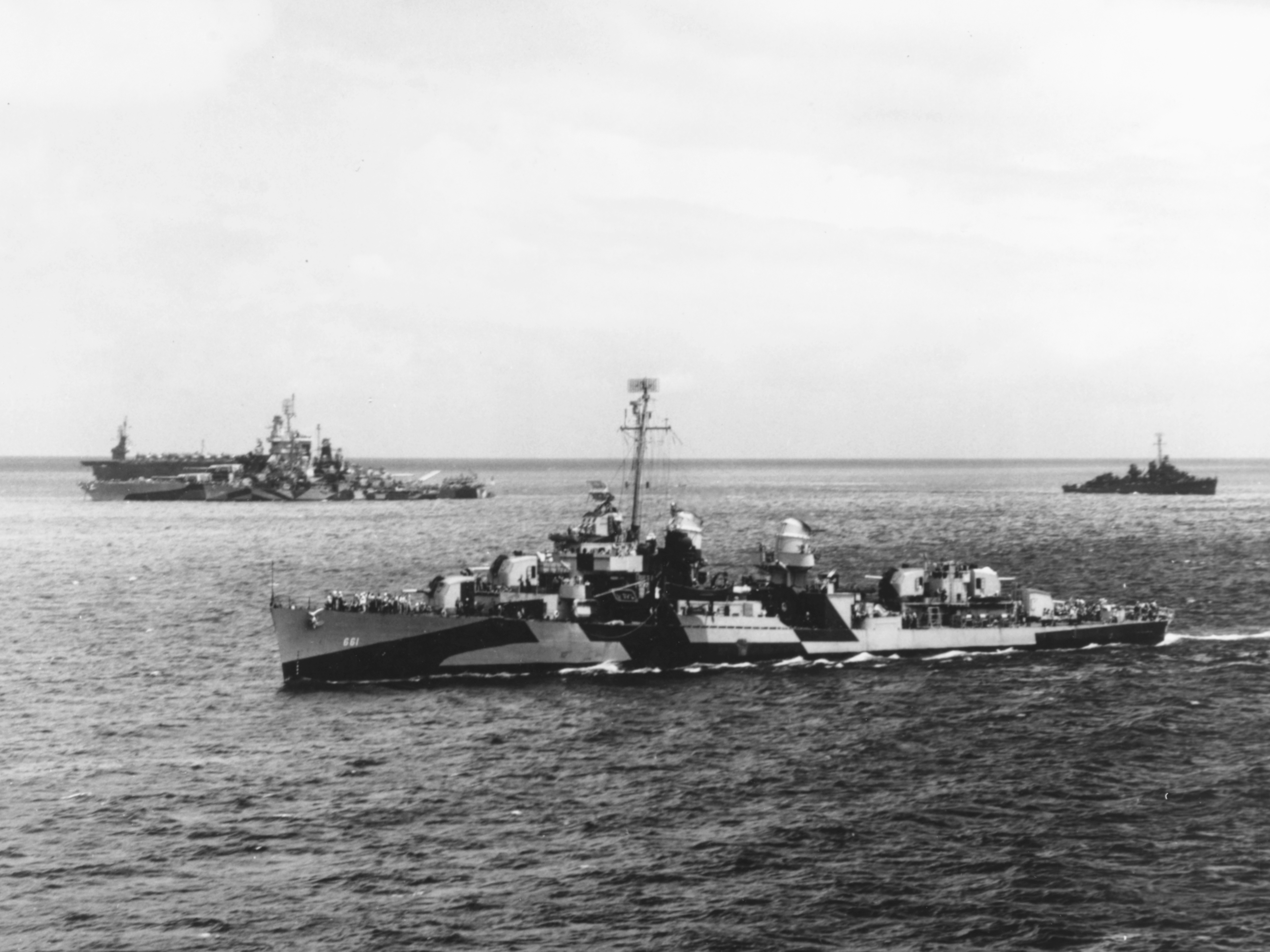 The U.S. Navy destroyer USS Kidd (DD-661) underway off Roi Island, Kwajalein, en route to the Saipan Invasion, 12 June 1944. She is painted in Camouflage Measure 32, Design 10D. Anchored in the left background is the battleship USS Tennessee (BB-43), with a destroyer alongside and an escort carrier beyond. The photo was taken from USS New Mexico (BB-40).